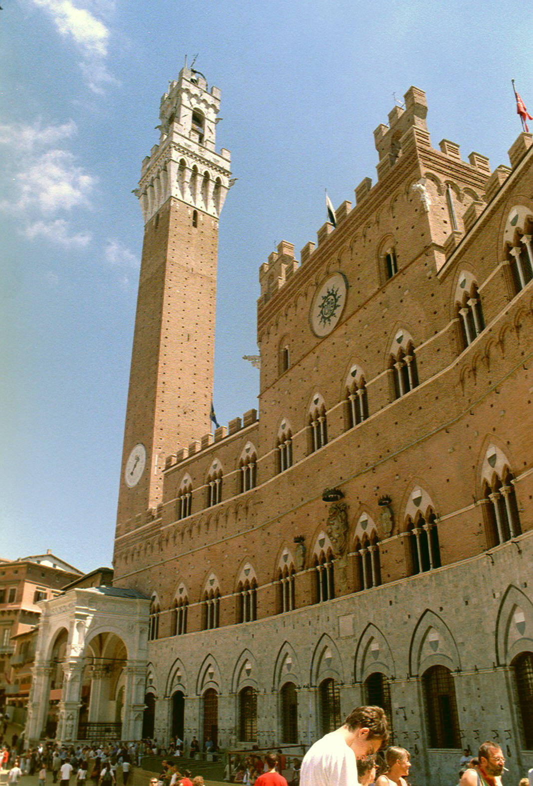 City Hall in Siena, Italy. Photographed by Niels Bosboom in July 2002.